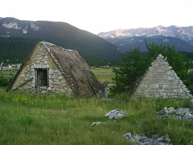 Blidinje Mountains, Bosnia and Herzegovina